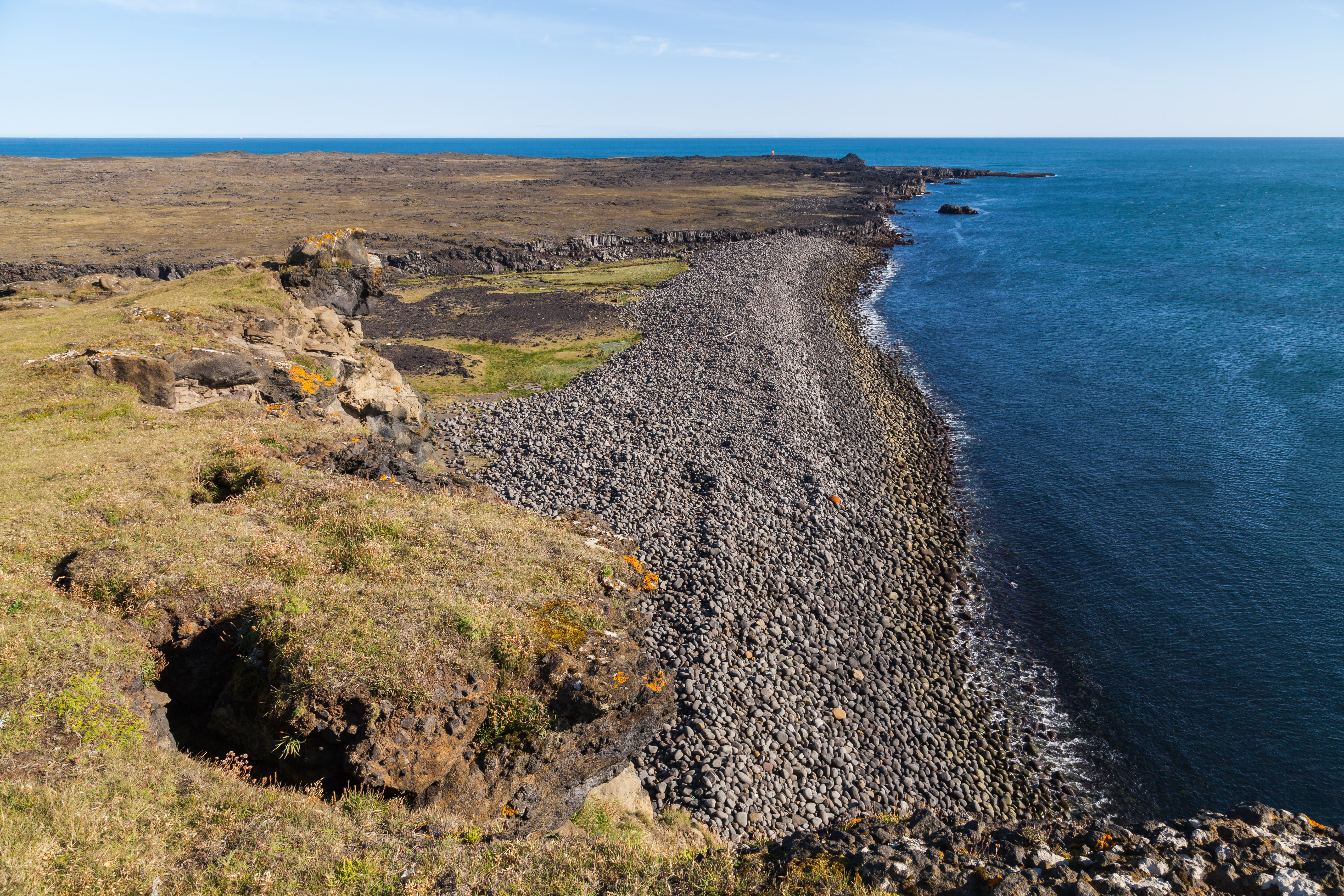 Valahnukur, Suðurnes, Iceland